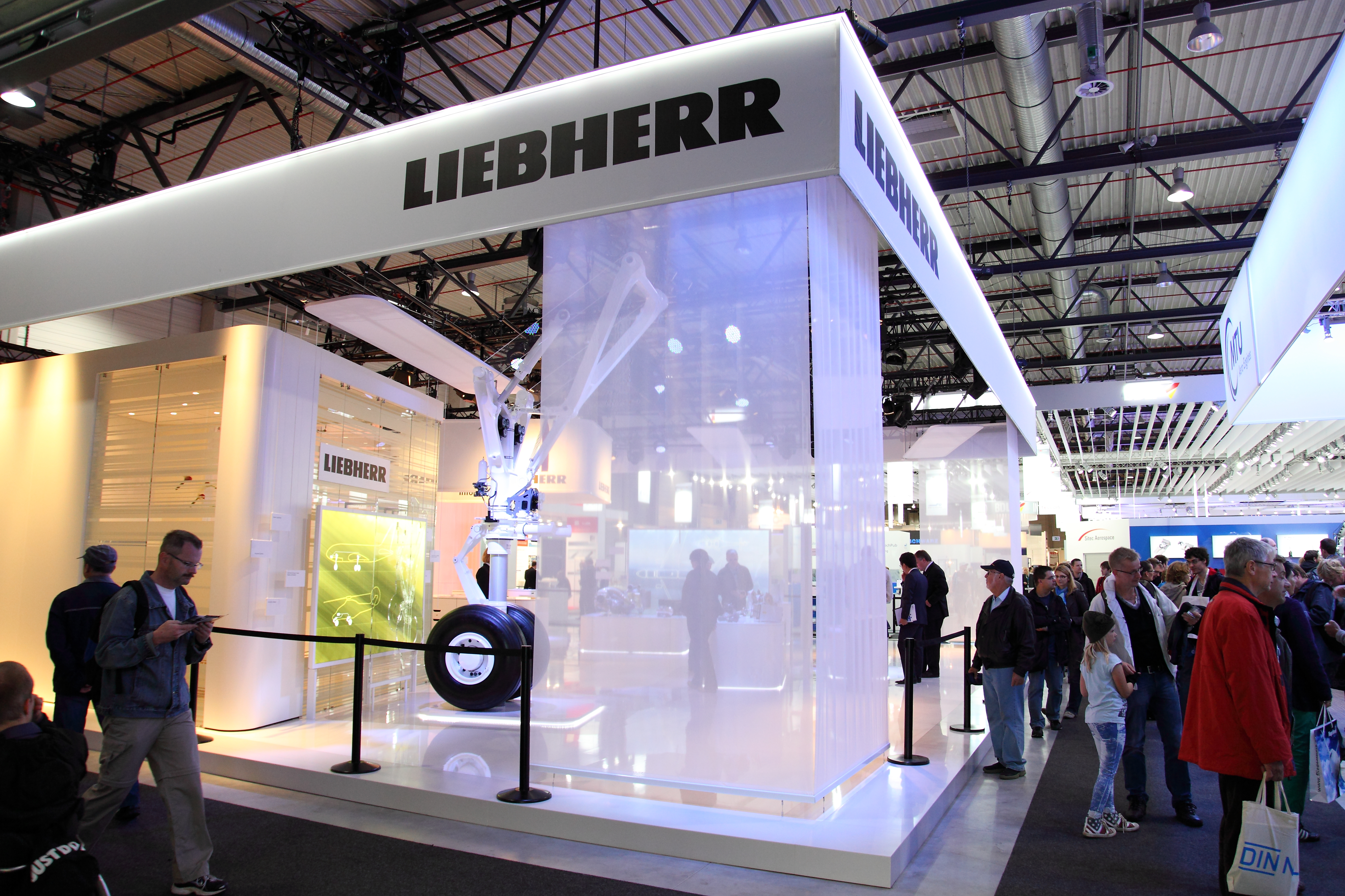 ILA Berlin Air Show 2012